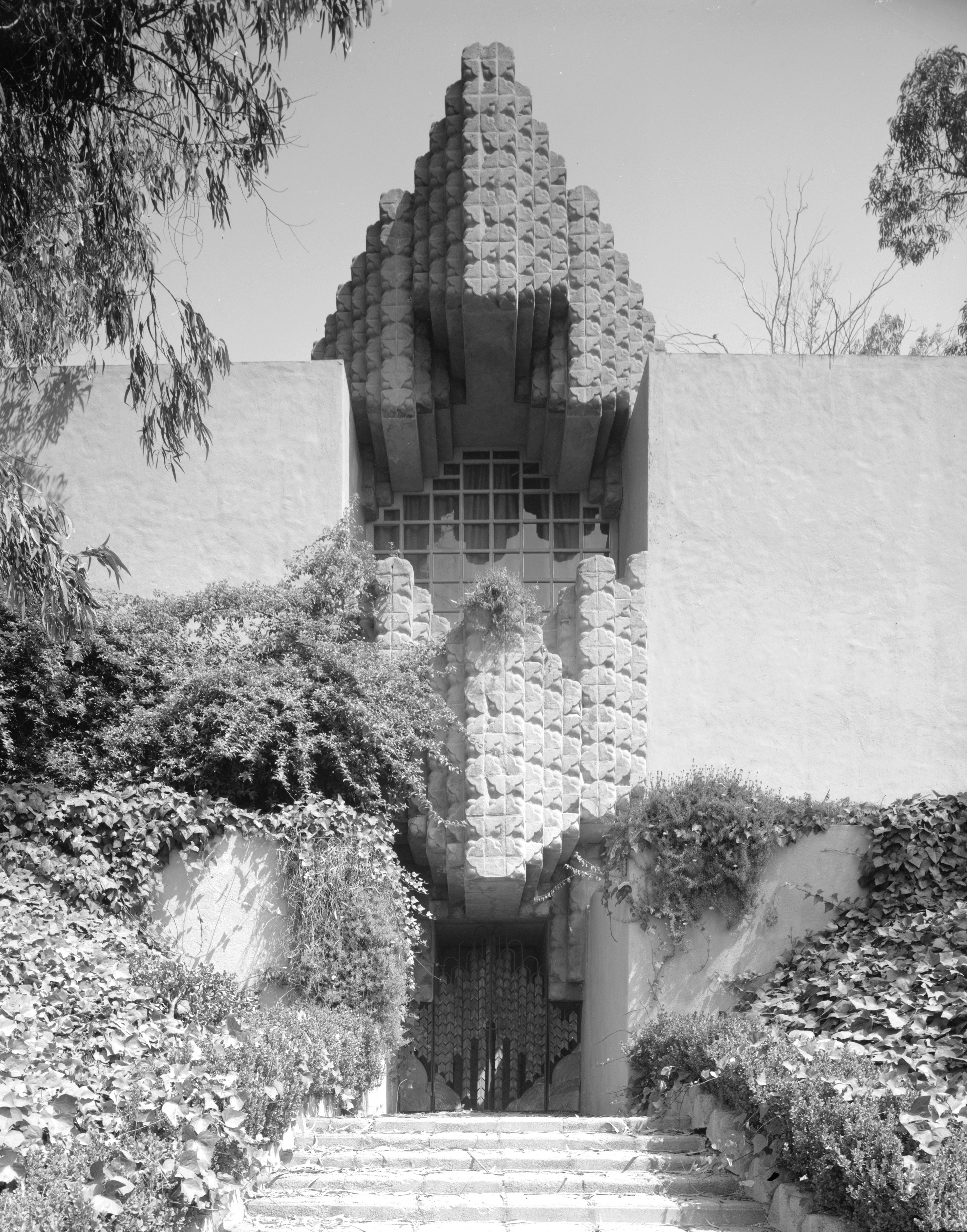 The entrance to the John Sowden House located in Hollywood, California, USA.